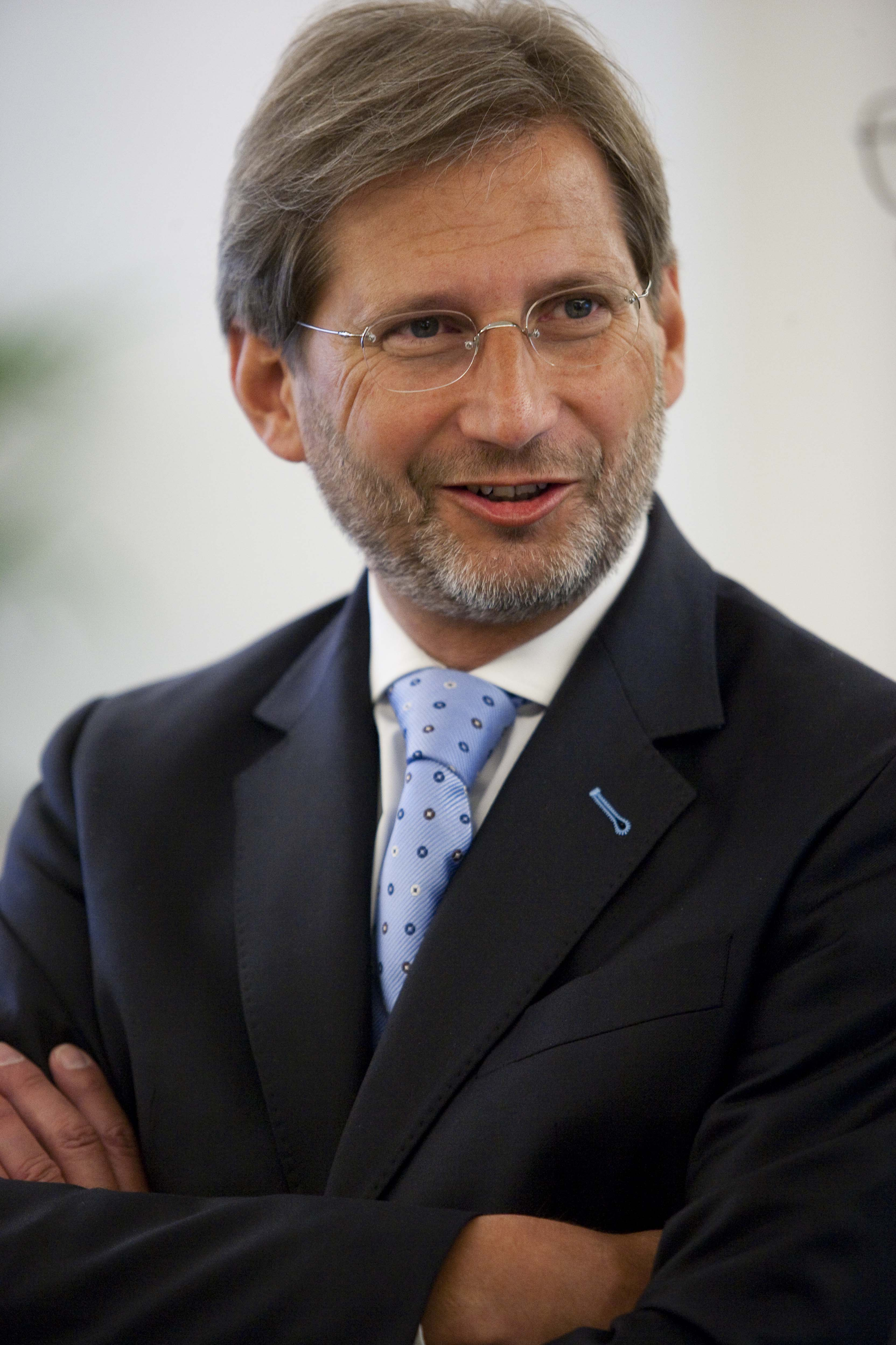 Austrian politician, minister Johannes Hahn (Politiker)